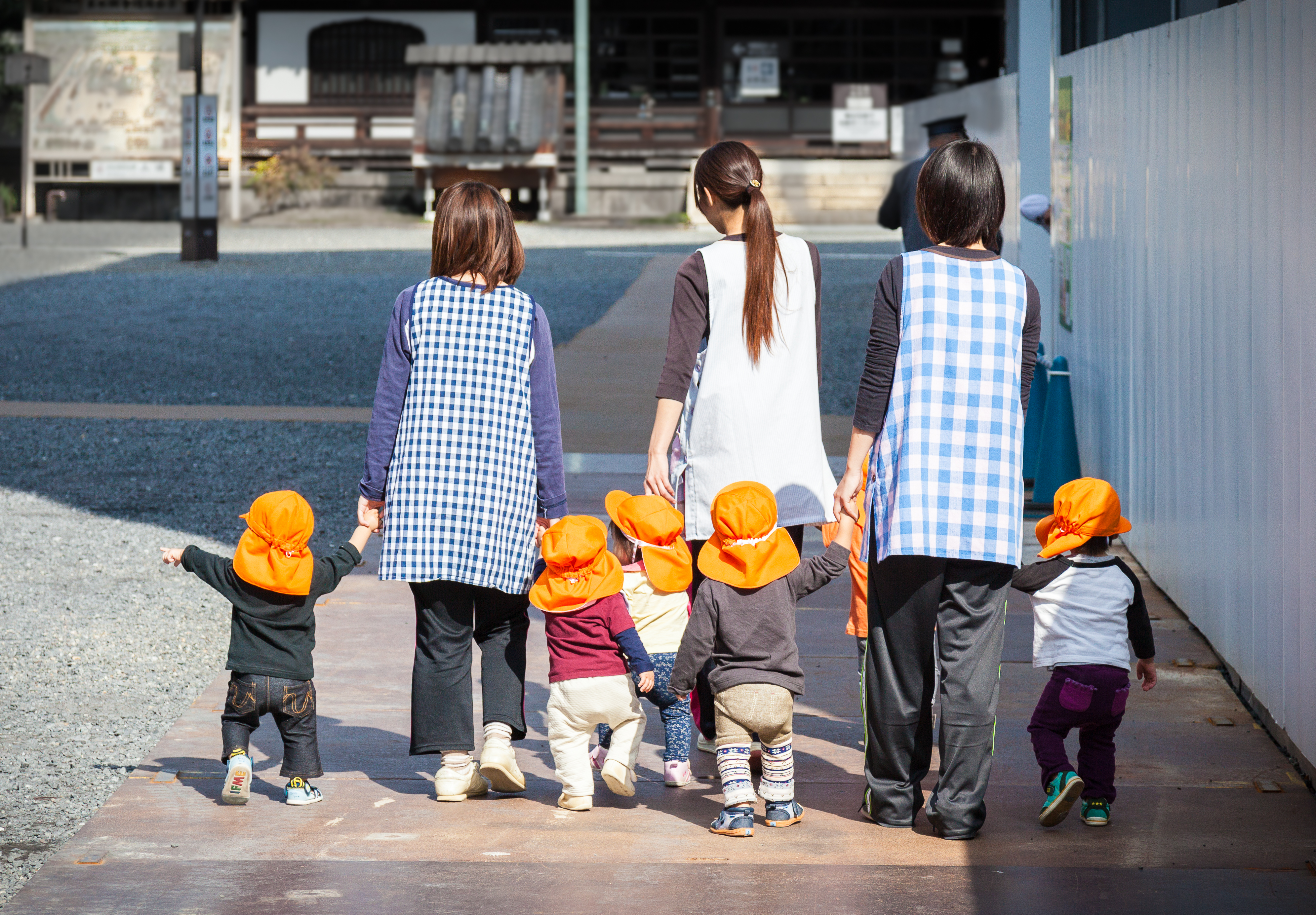 Japanese nursery school class, photographed at Higashi Honganji, Kyoto